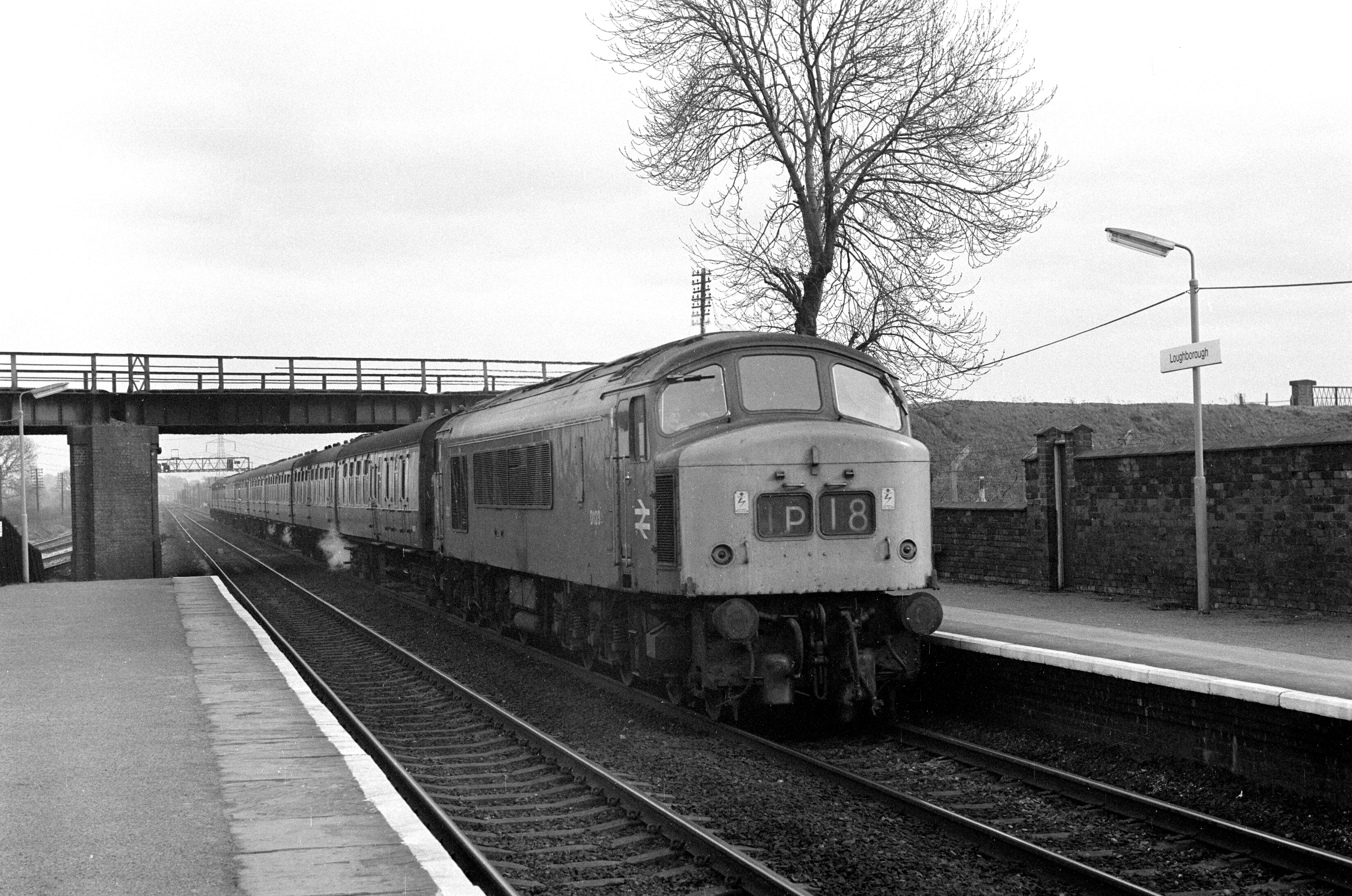 "Peak" no. D123 enters Loughborough Midland station under the ex-Great Central Railway bridge with a north-bound train, 31 March 191973.